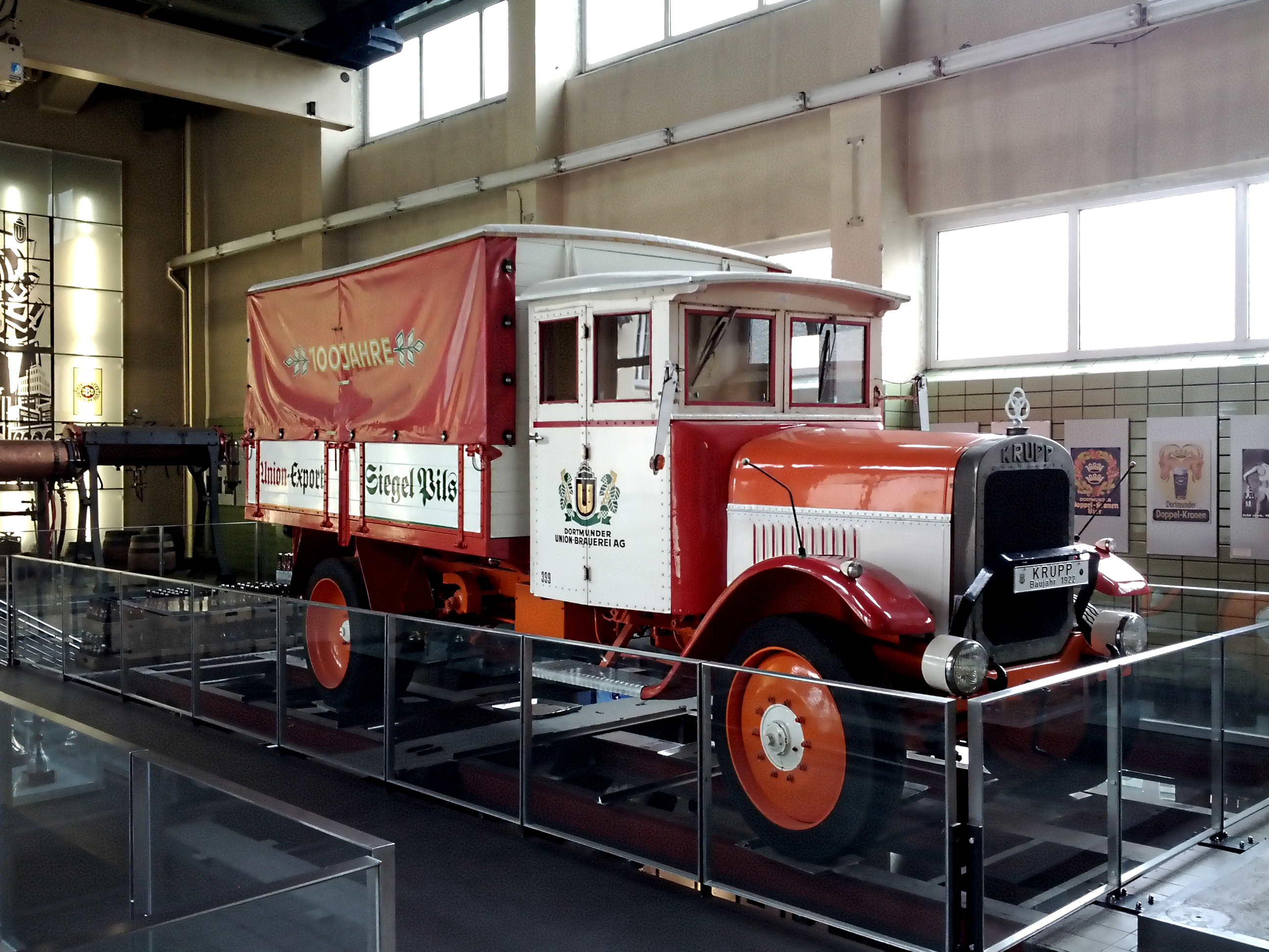 Date & Time: 08.05.2012 / 13:34 Location: Brauerei-Museum Dortmund